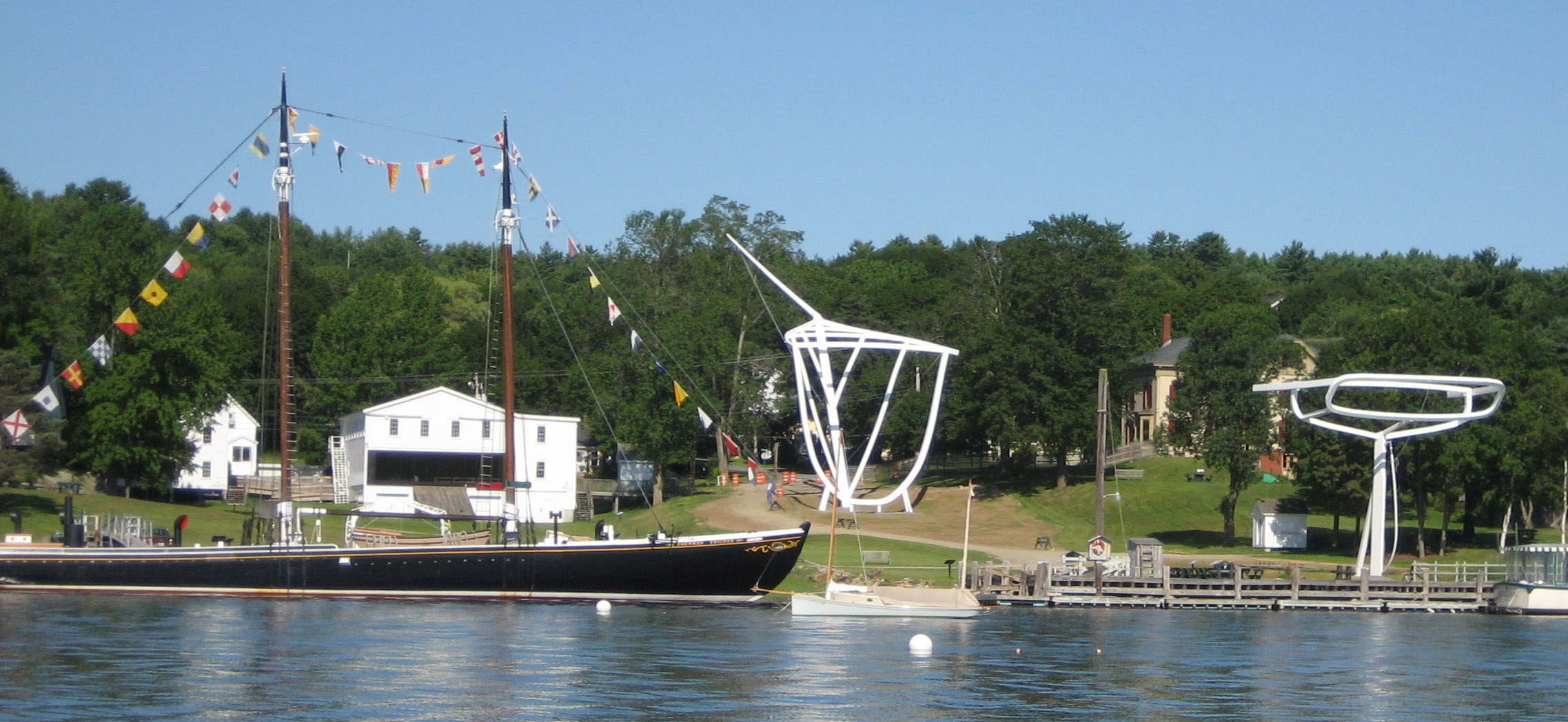 Grand Banks schooner SHERMAN ZWICKER and the schooner WYOMING evocation